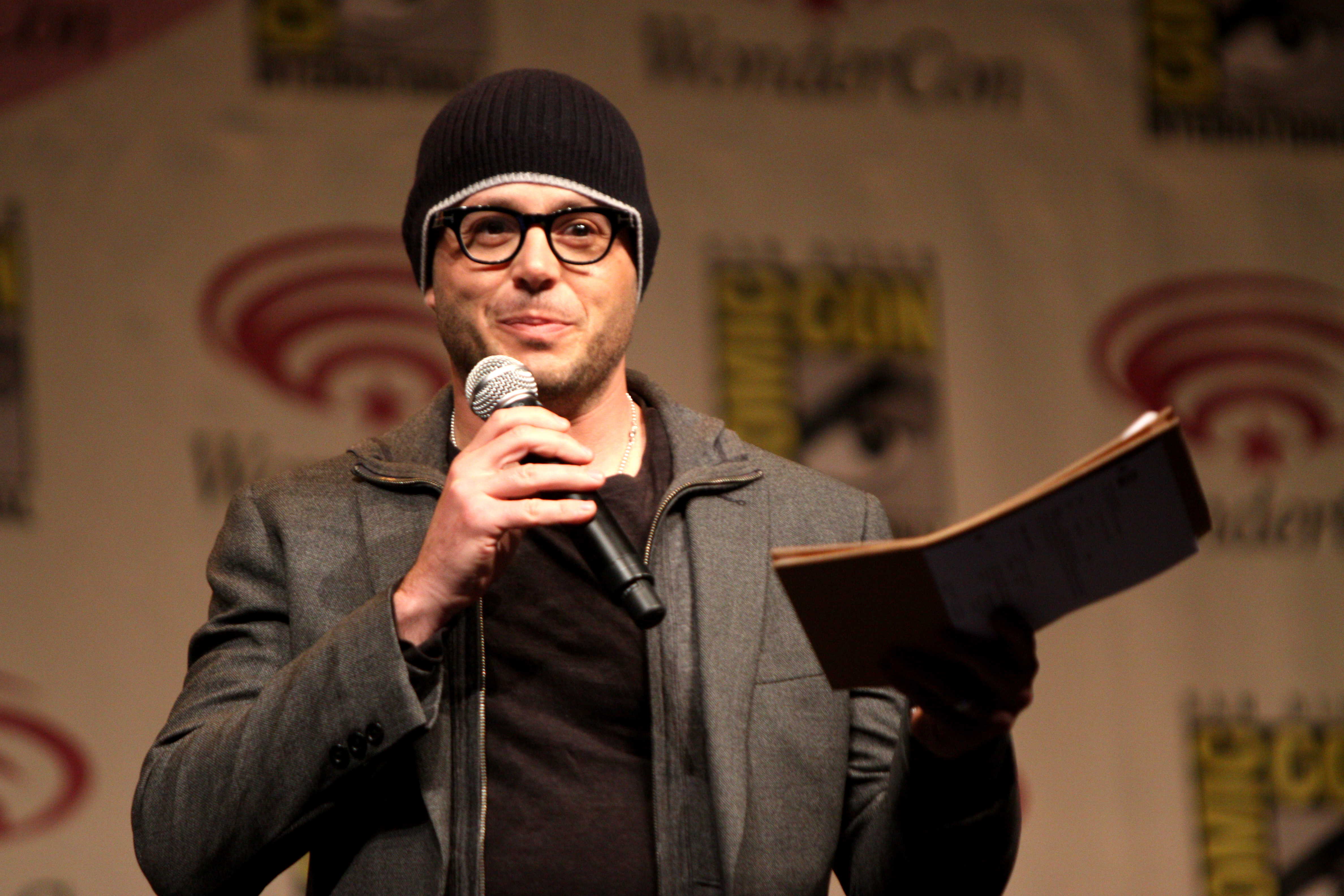 Damon Lindelof speaking at the 2012 WonderCon in Anaheim, California.